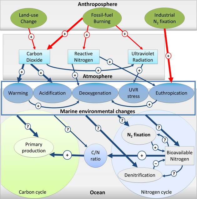 Nitrogen–carbon–climate interactions. Shown are the main interacting drivers during the Anthropocene. Signs indicate an increase (+) or a decrease (−) in the factor shown; (?) indicate an unknown impact. Colors of the arrow indicate direct anthropogenic impacts (red) or natural interactions (blue, many of which also modified by human influence). Strength of the interaction is expressed by the arrow thickness. Only selected interactions are represented. Adapted from: Gruber, N., and J. N. Galloway (2008) "An Earth‐system perspective of the global nitrogen cycle". Nature, 451:293–296.